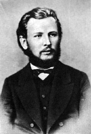 Nikolay Dmitrievich Kashkin (1839-1920)